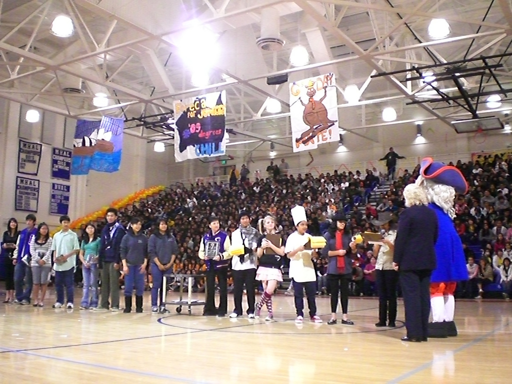 Photo of the gymnasium at Independence High School (San Jose, CA), taken during a public spirit assembly.